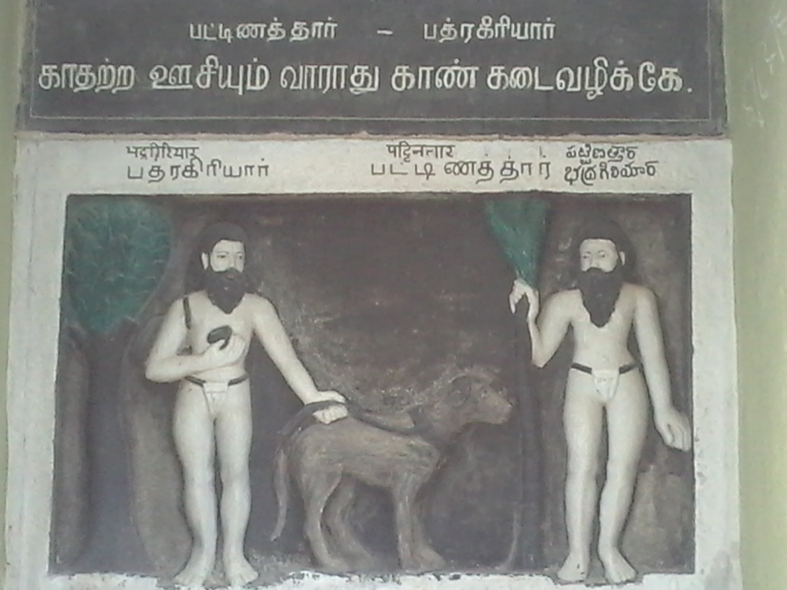 photo பத்திரகிரியார்